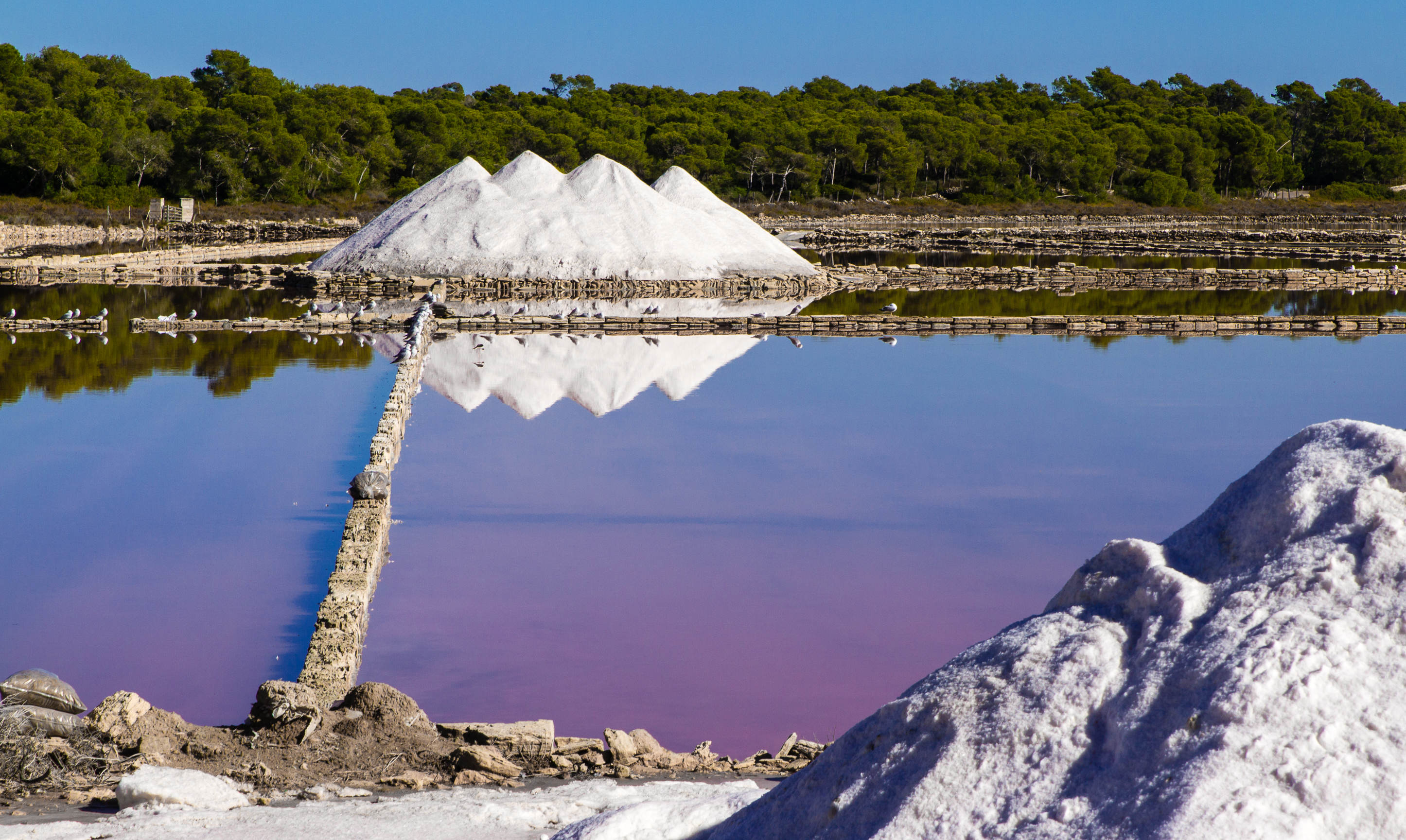 Salt evaporation pond in Ses Salines.